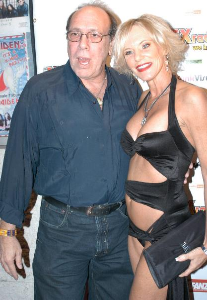 Roy Karch, Cara Lott at Listeners Choice Awards, December 2 2006